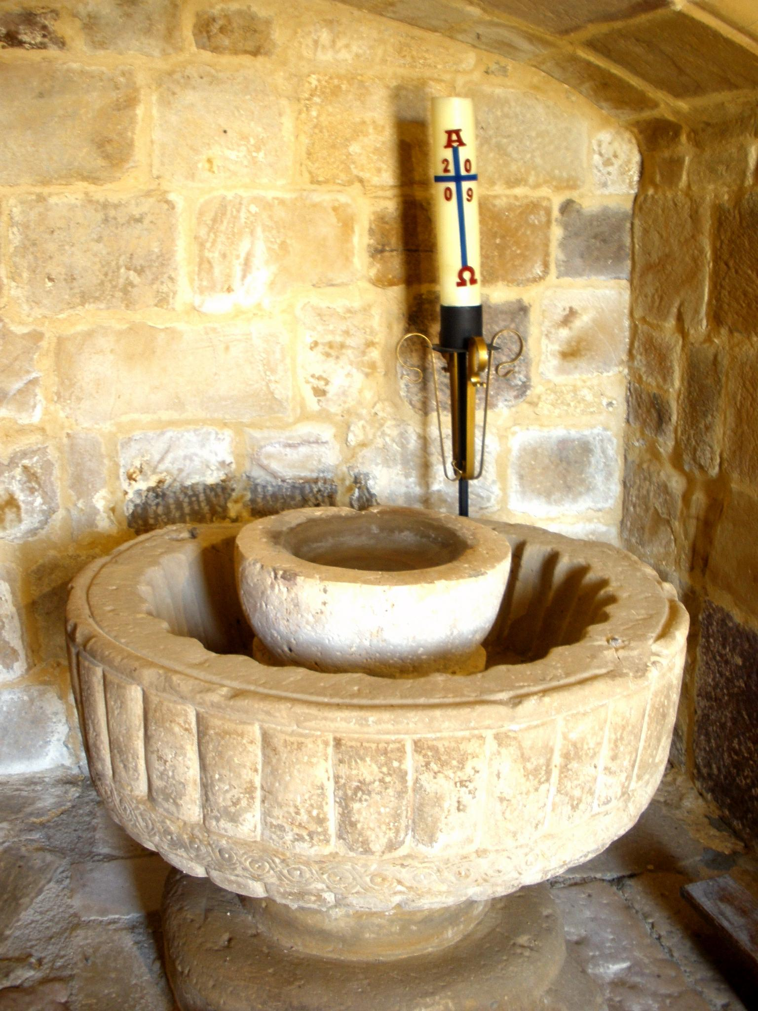 Pila bautismal de la Iglesia parroquial de San Cosme y San Damián, en Basconcillos del Tozo (Burgos, Castilla y León, España)